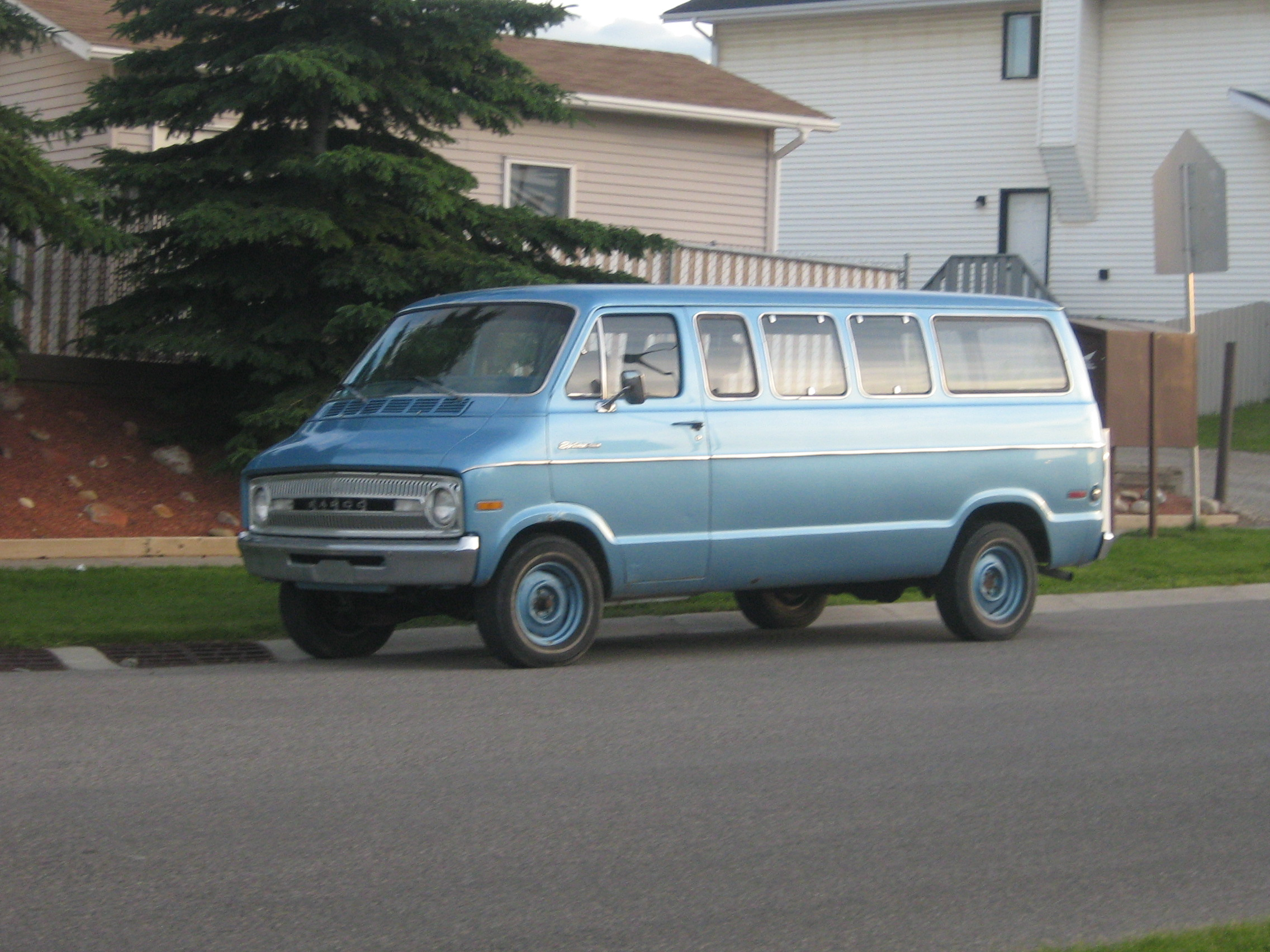 A 70s Fargo van in great shape.